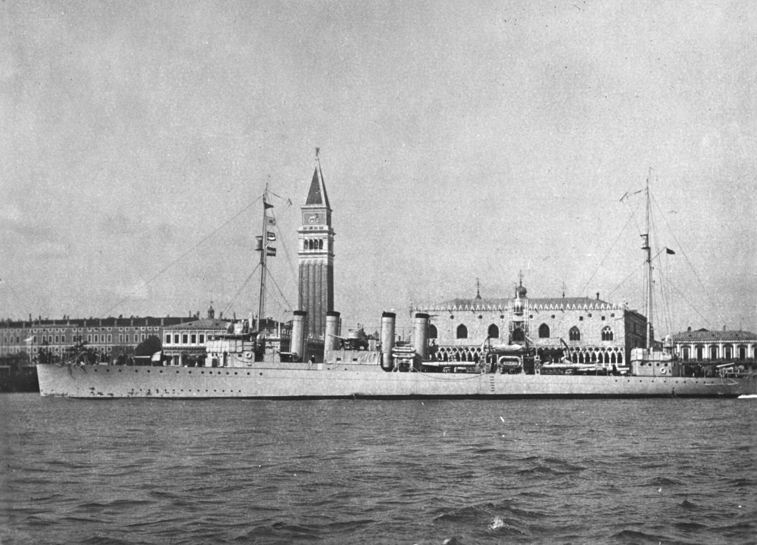 The U.S. Navy destroyer USS Lansdale (DD-101) at Venice, Italy in 1919. Note that the ship's hull number ("101") is painted on the bulwark below her after bridge.